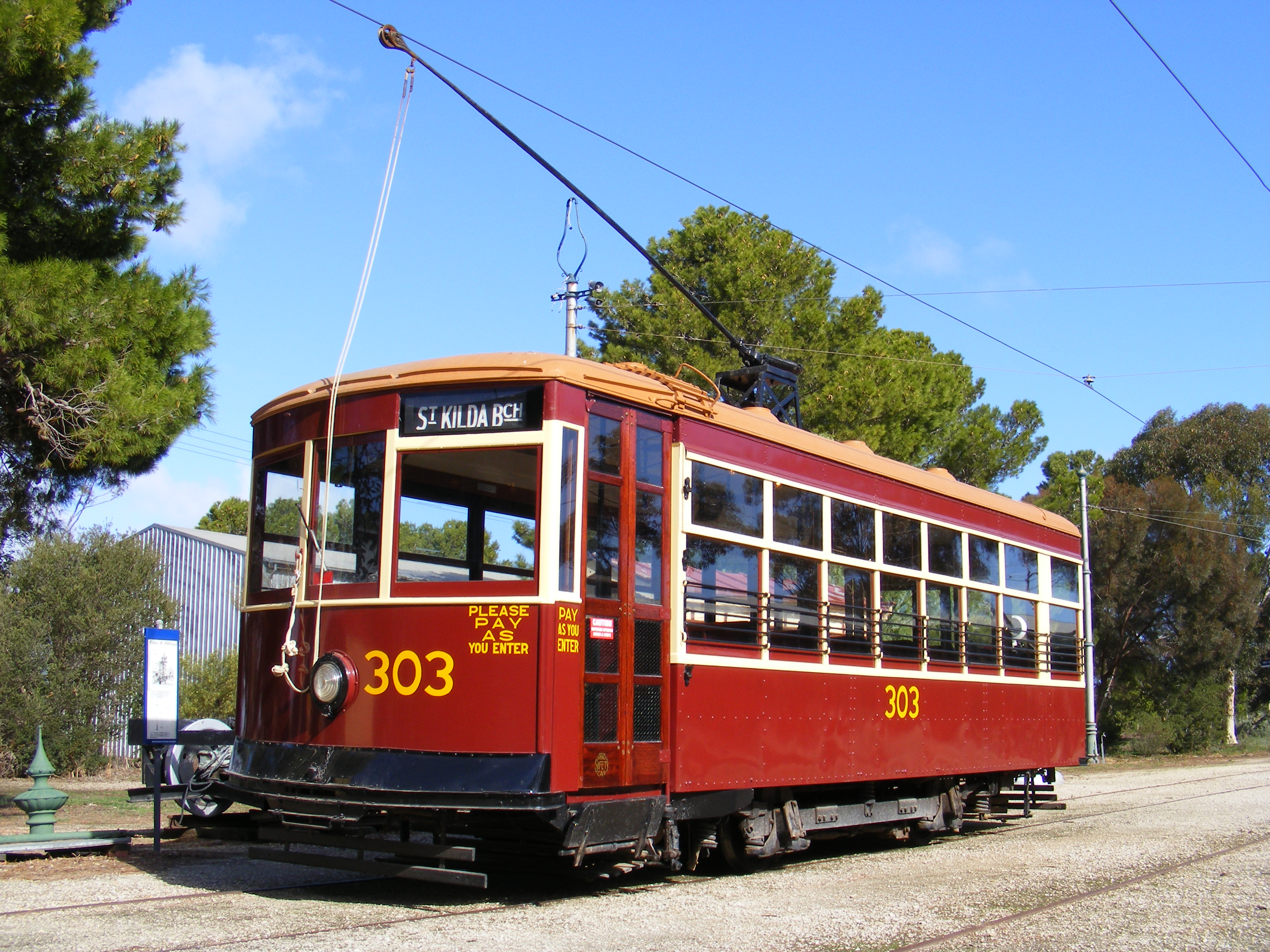 G type 'Birney' tram 303 as seen at the St Kilda Tramway Museum, May 2008.